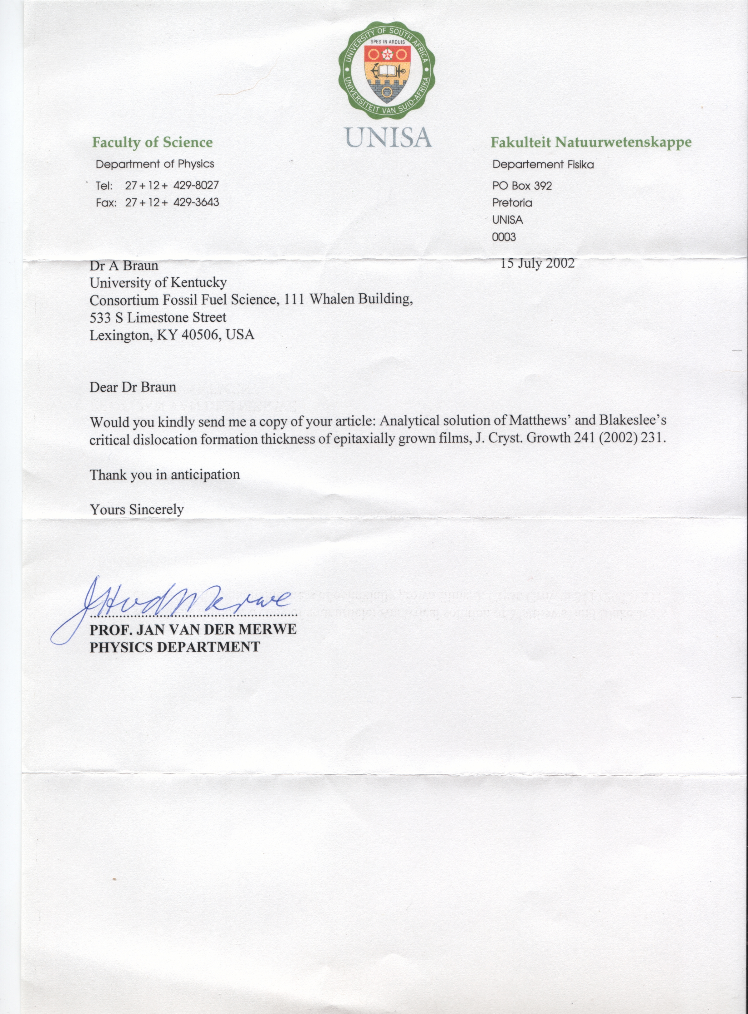 Letter of Prof. Johannes "Jan" Hendrick van der Merwe to Artur Braun requesting a copy of a publication on thin films.